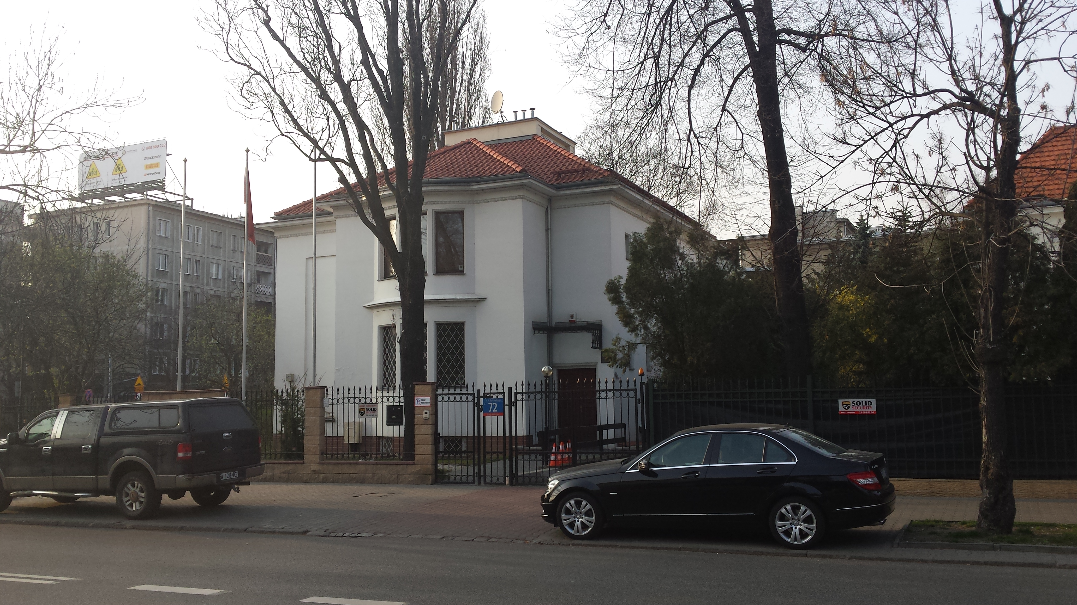 Moroccan embassy in Warsaw